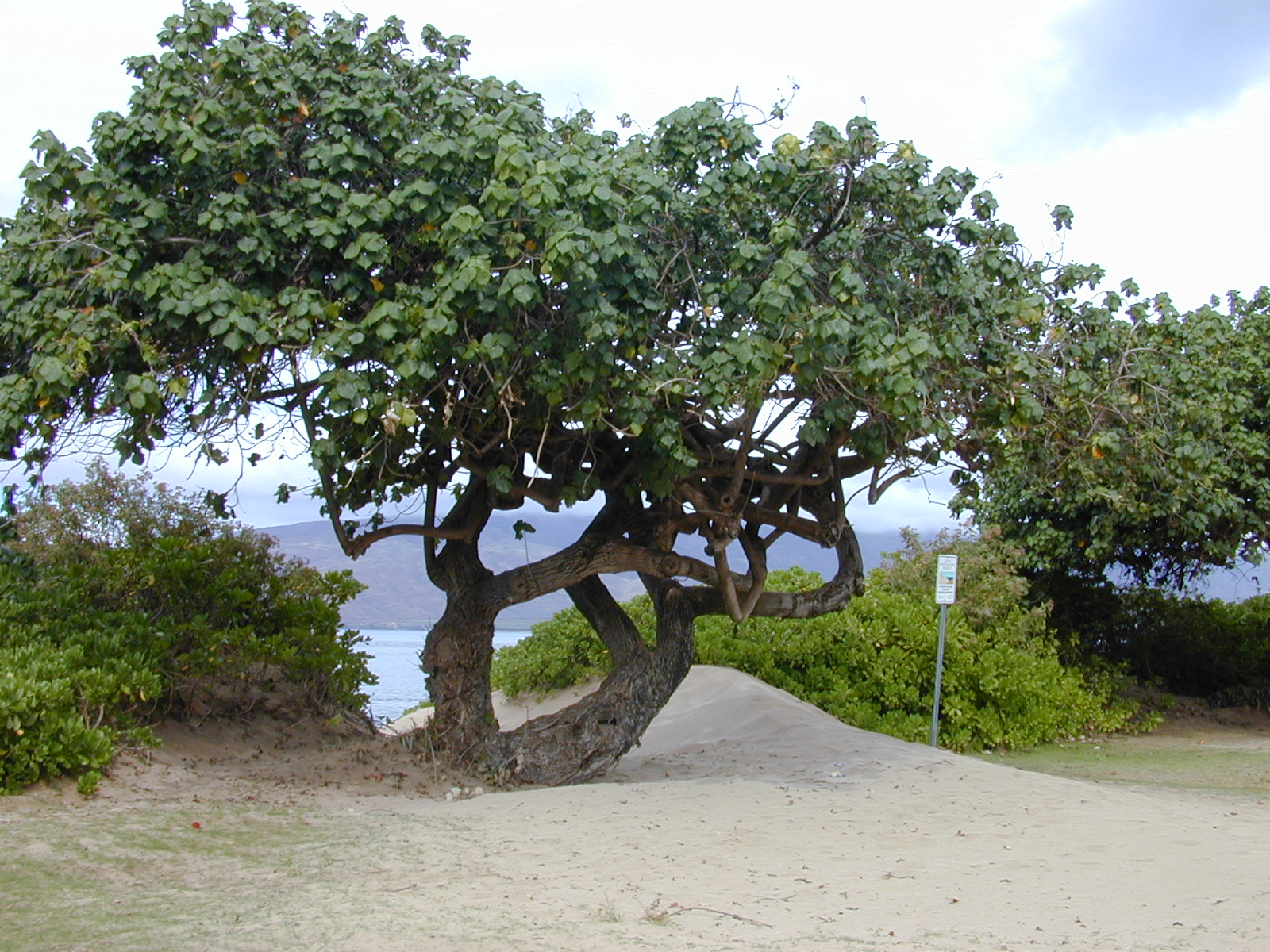 Hibiscus tiliaceus (habit). Location: Maui, Mai poina oe lau Beach Kihei